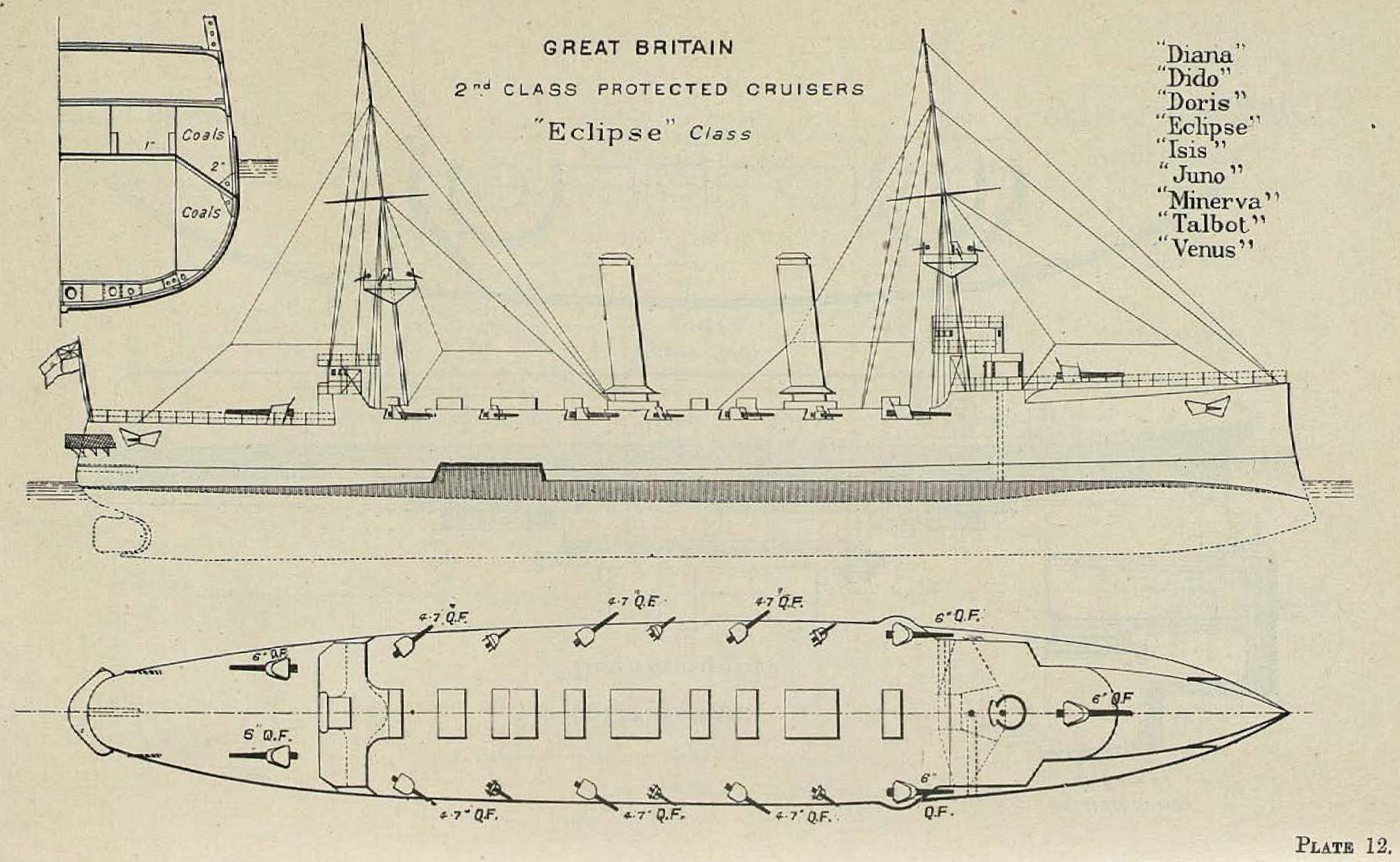 Right elevation, deck plan and hull section diagrams depicting British Eclipse class cruiser.